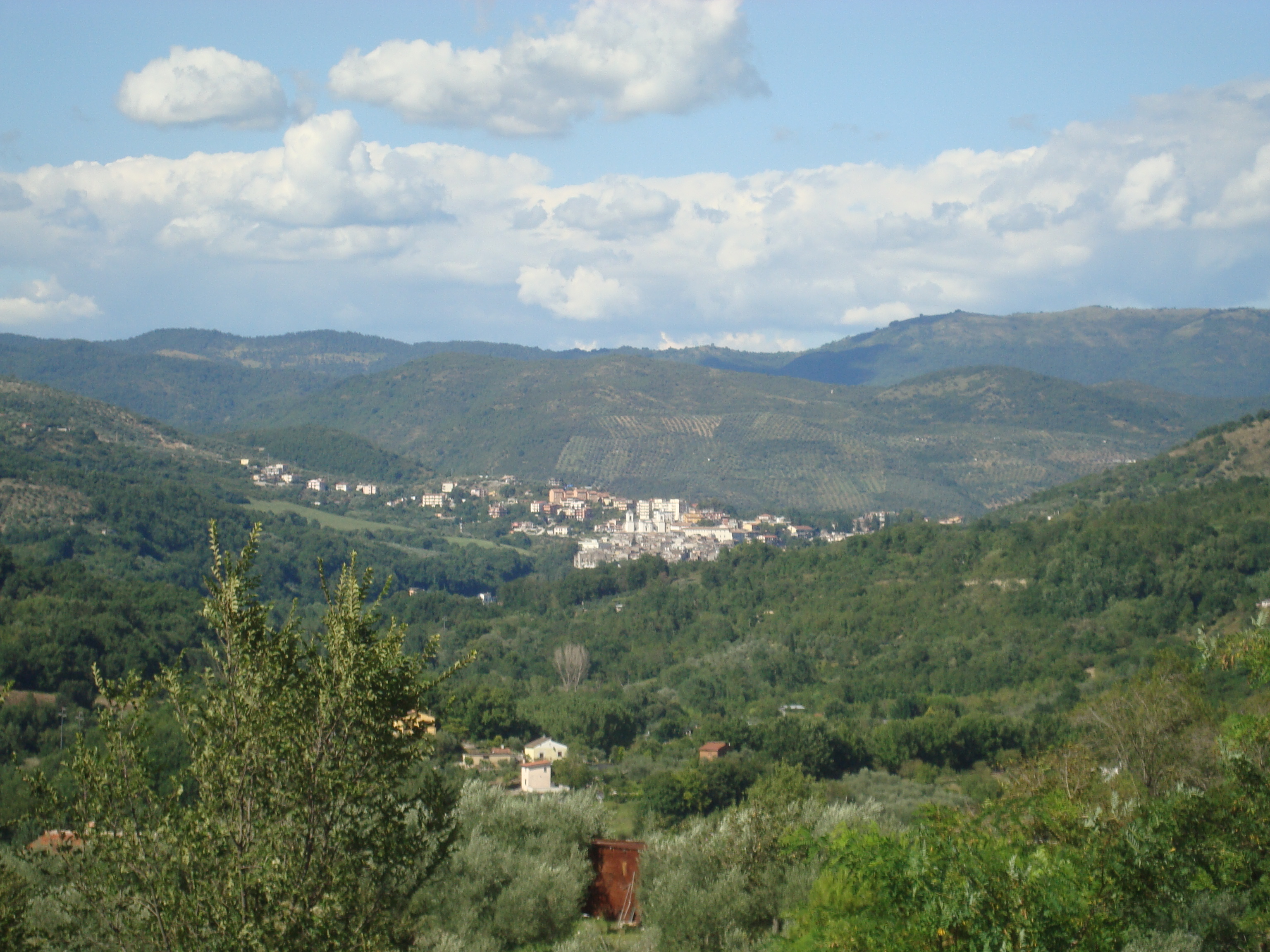 View of Vicovaro from Castel Madama, Italy